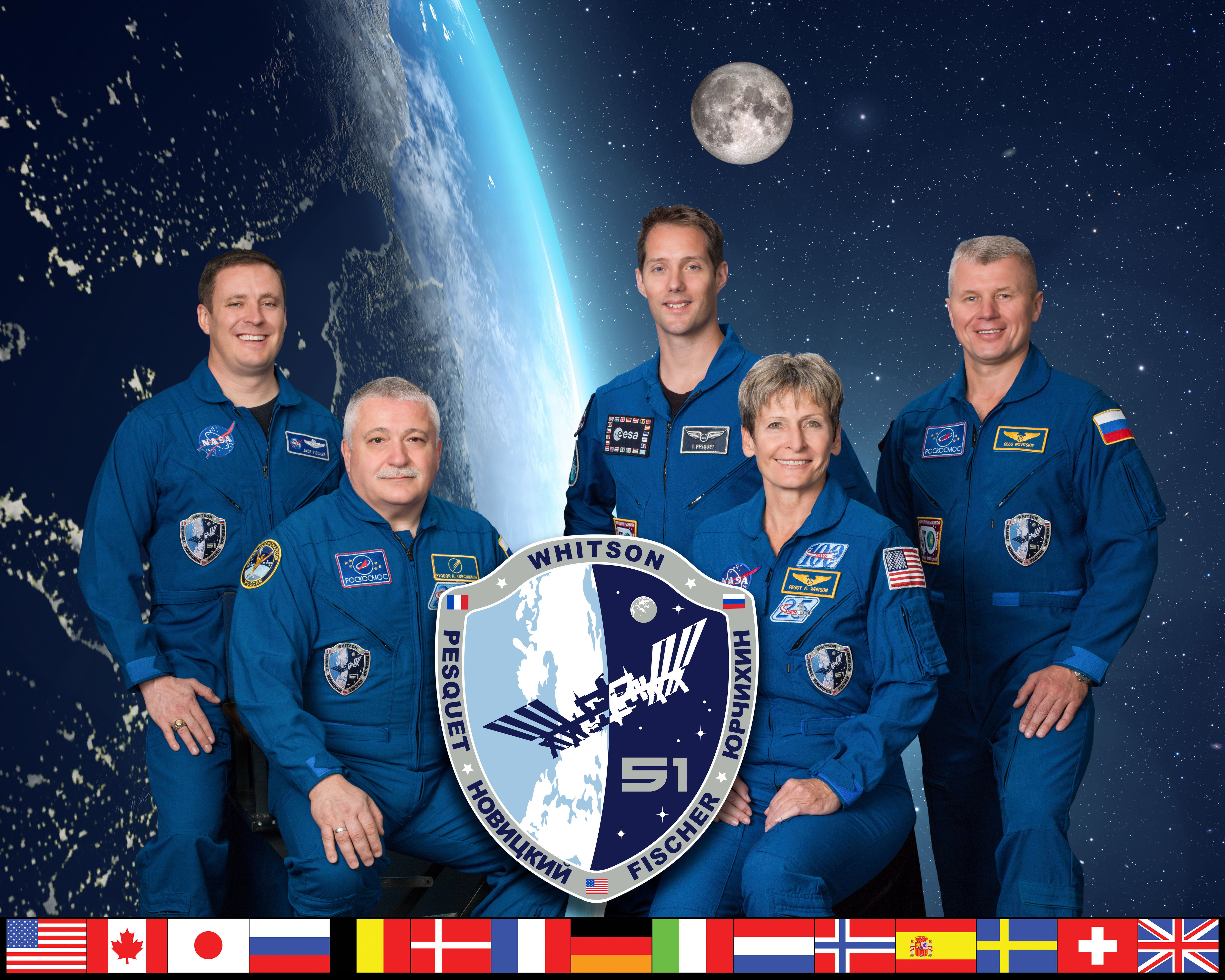 The five-member Expedition 51 crew consists of (from left) Jack Fischer, Fyodor Yurchikhin, Thomas Pesquet, Peggy Whitson and Oleg Novitskiy.